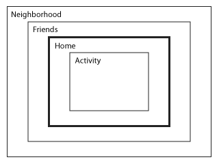 One Laptop per Child - GUI "Sugar" - mesh network - zoom levels